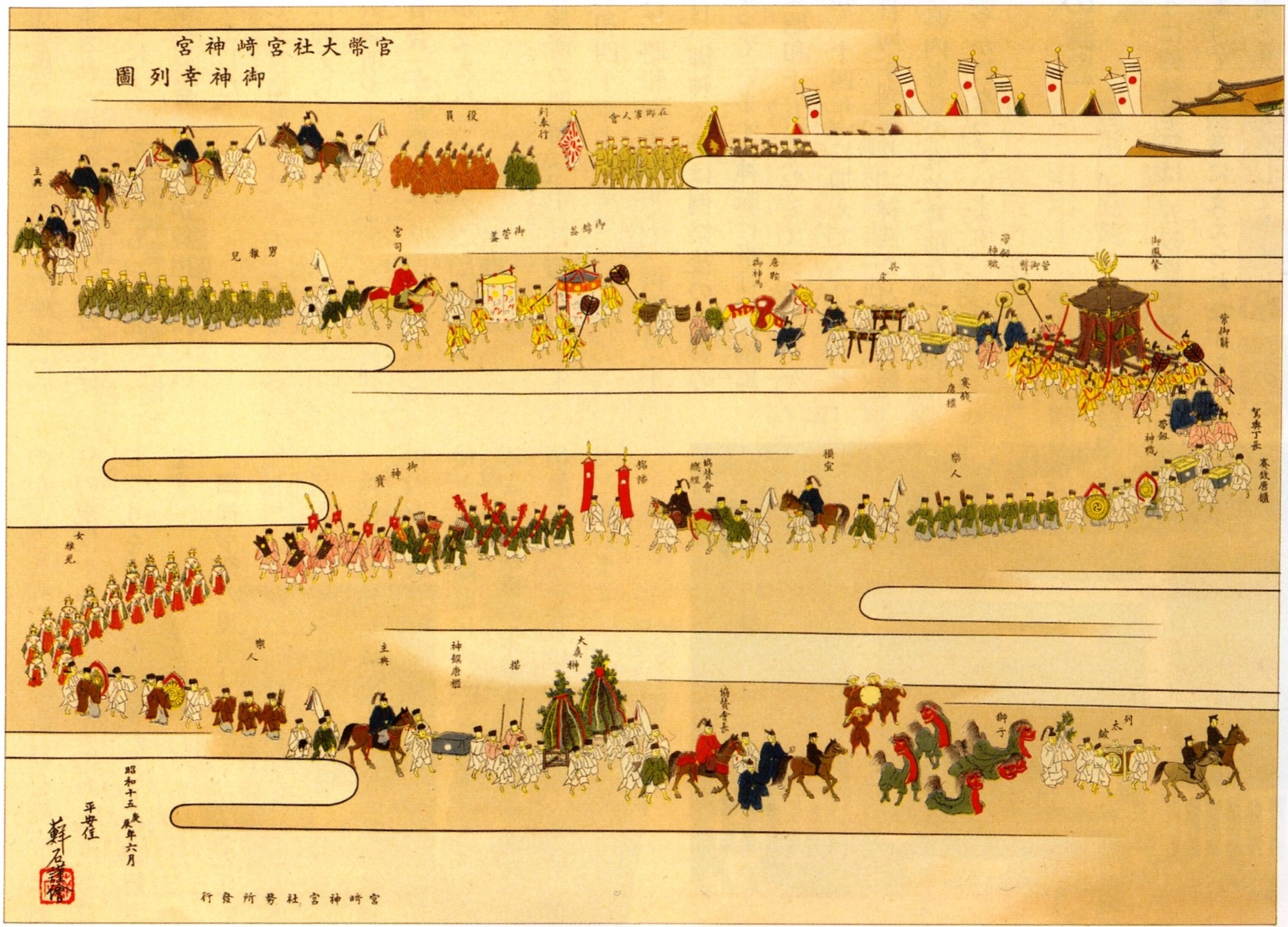 Miyazaki Shrine Grand Festival Illustration (June, 1940)